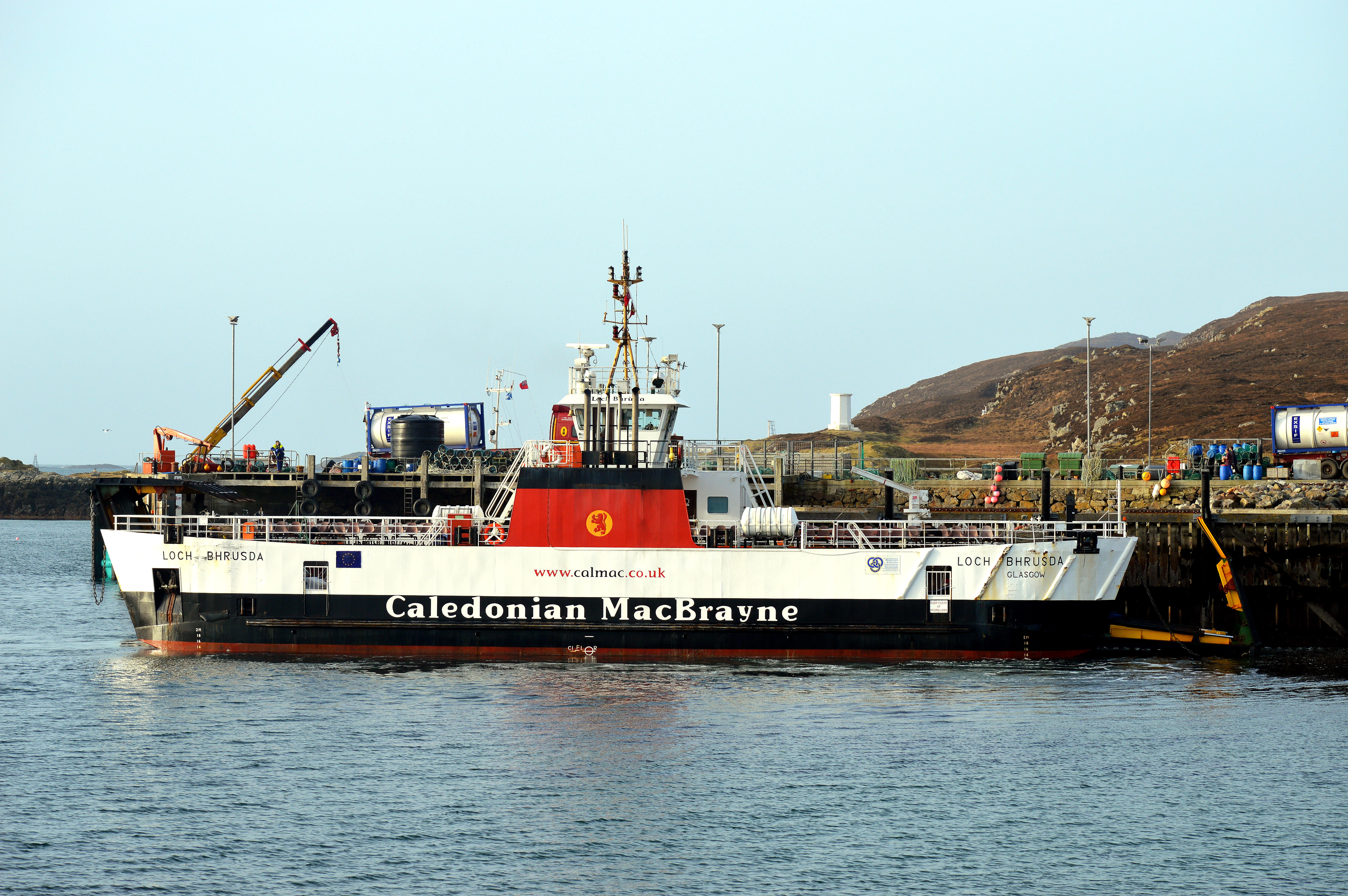 The former Sound of Harris ferry berthed at Leverburgh slipway on Harris whilst covering for her replacement, the 2003-built Loch Portain.